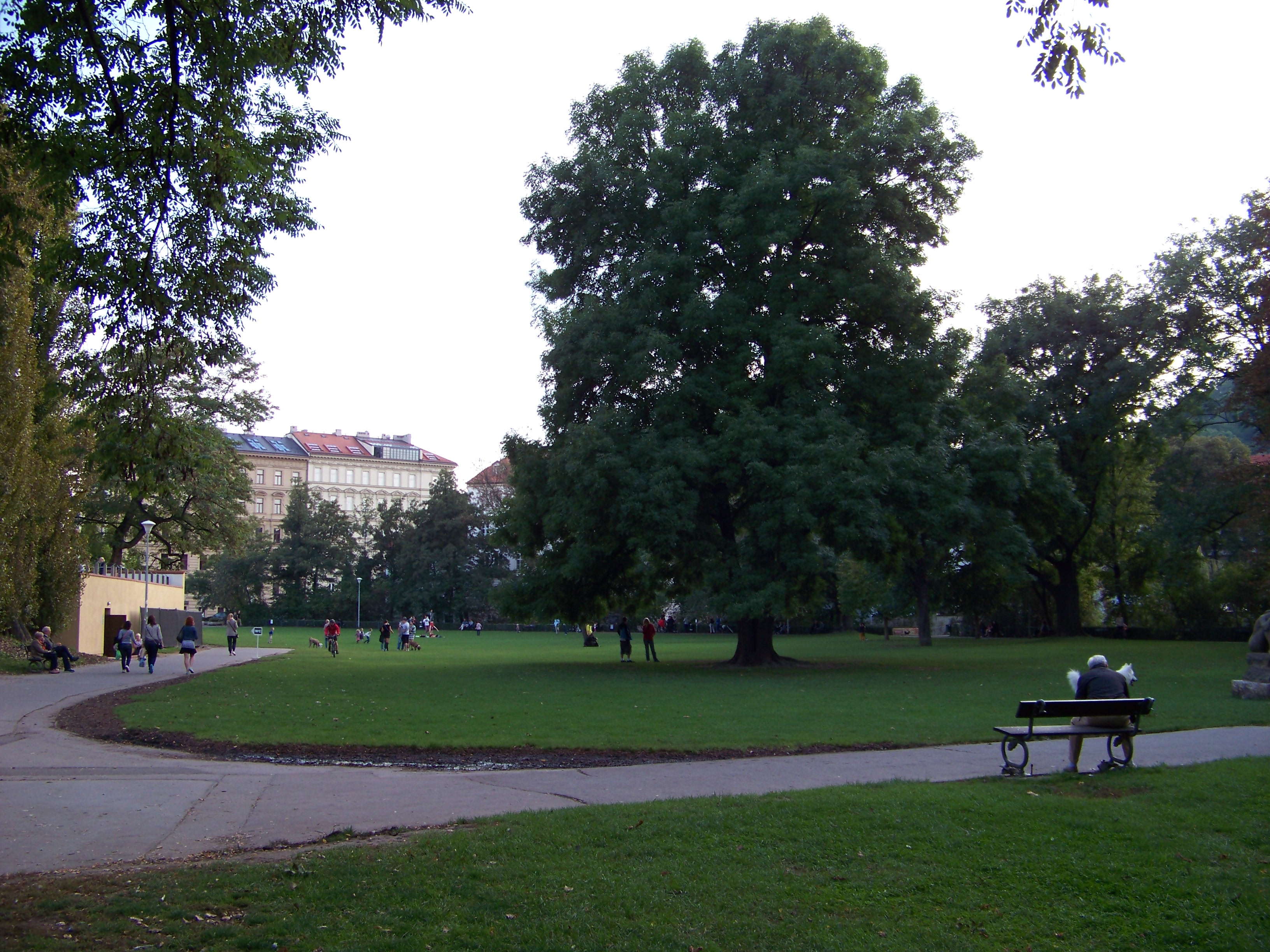 Prague-Malá Strana, Czech Republic. Kampa Park, U Sovových mlýnů street.